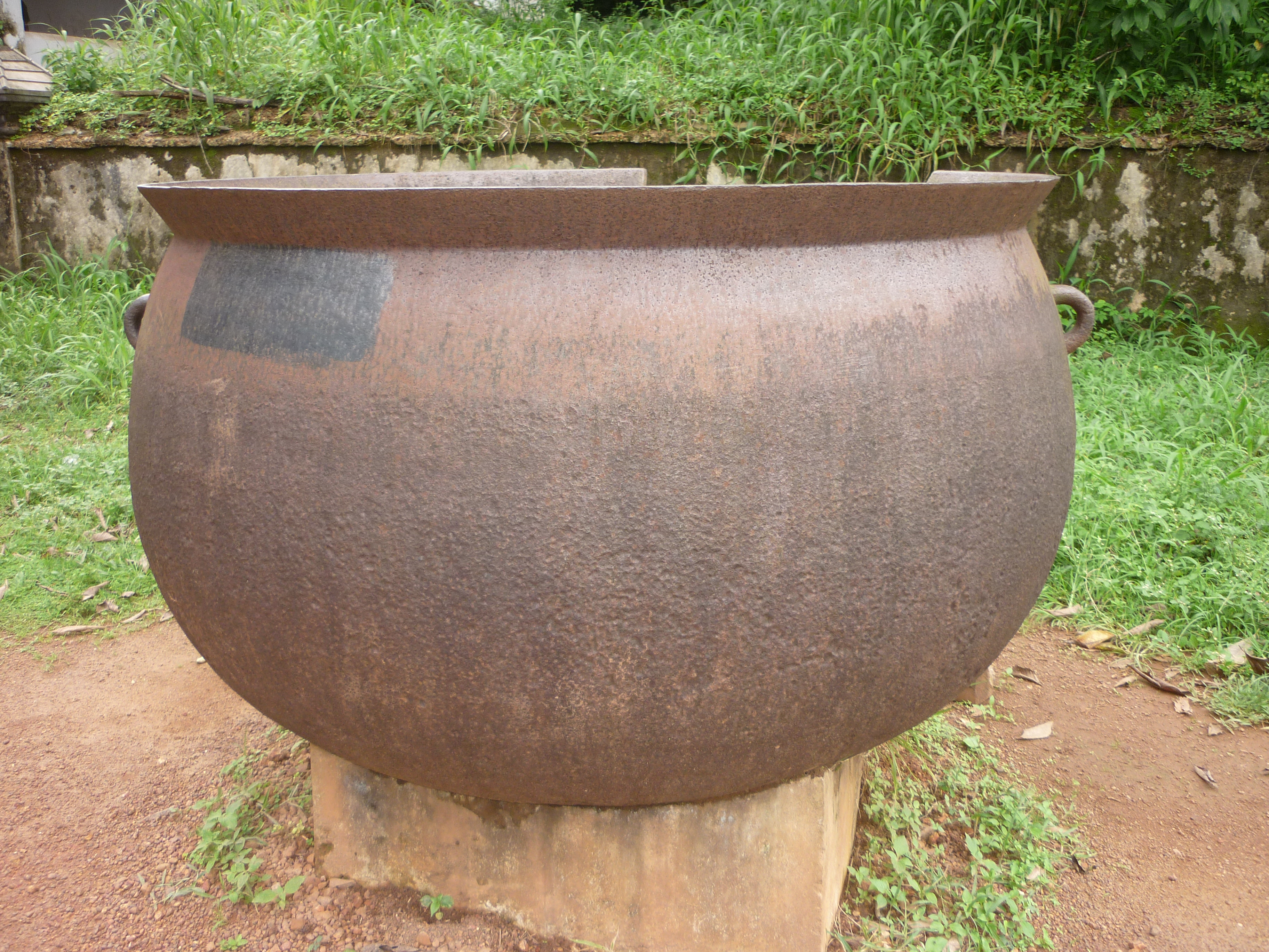 A large vase at Hill palace Kerala